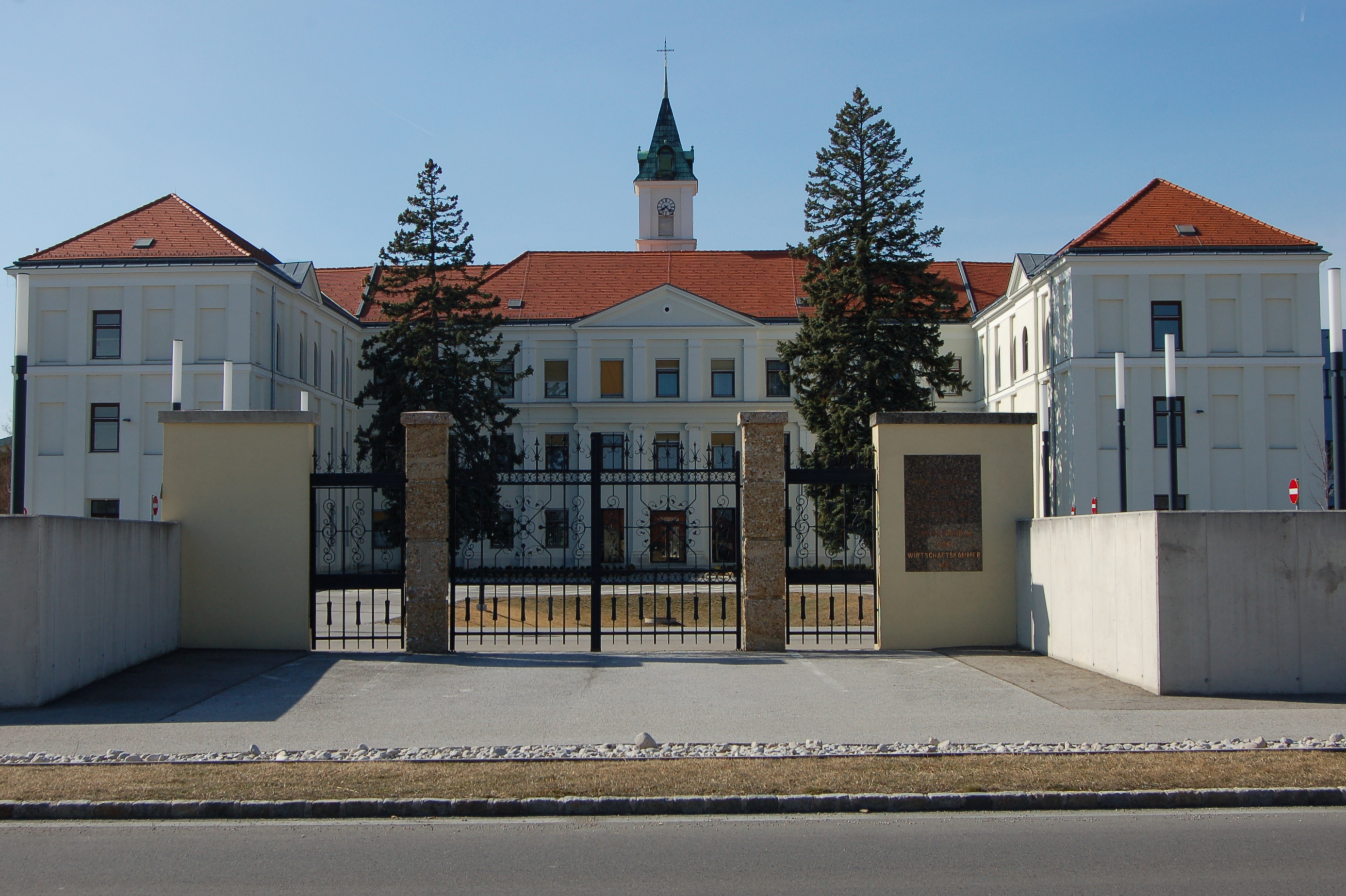 Vocational training school in Theresienfeld, Lower Austria